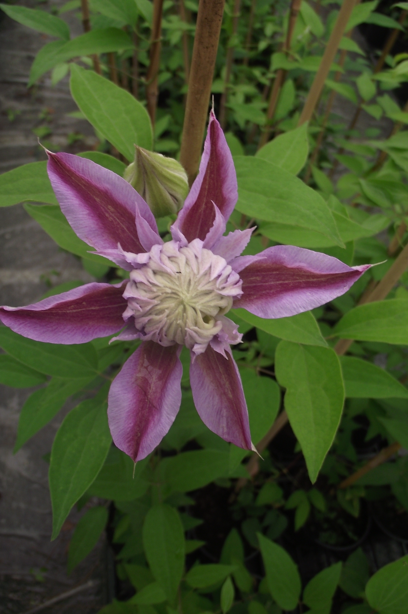 Clematis Evijohill